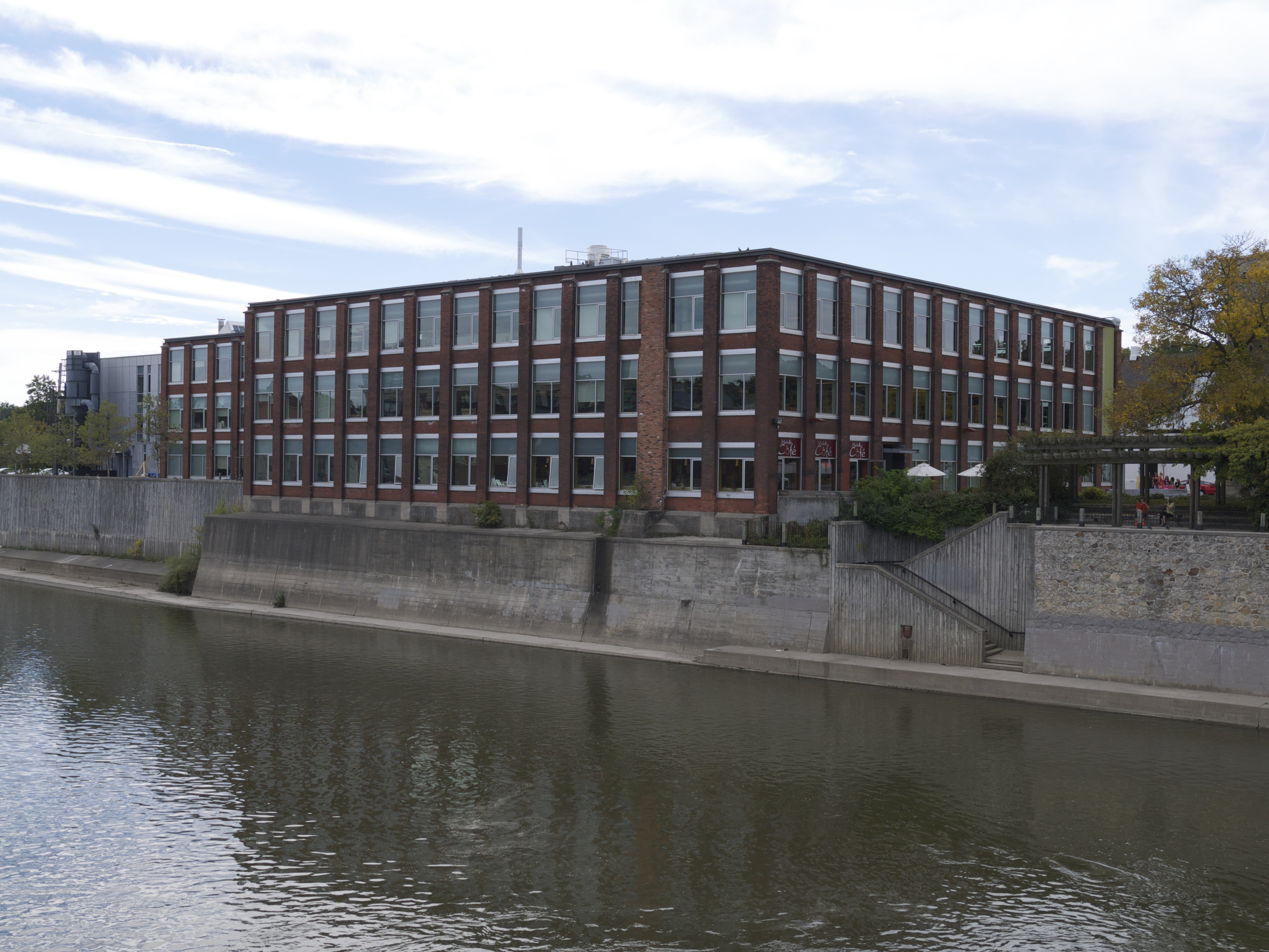 University of Waterloo School of Architecture